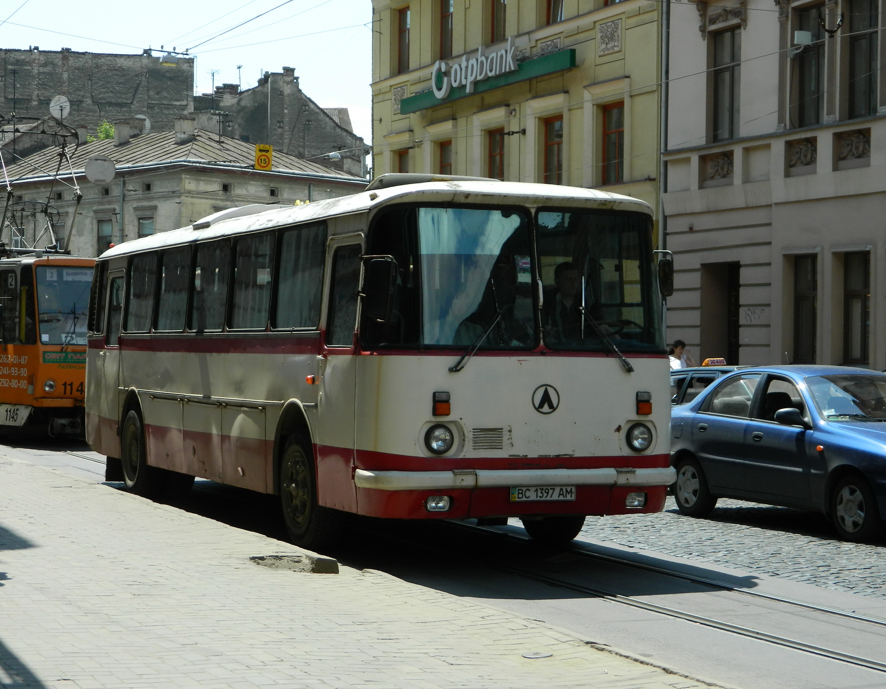 LAZ 699R bus (BC 1397 AM) in Ukraine. Operator unknown.